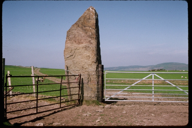 Carreg Bica Taken in the 1980s by my late father on a rare bright, sunny day!